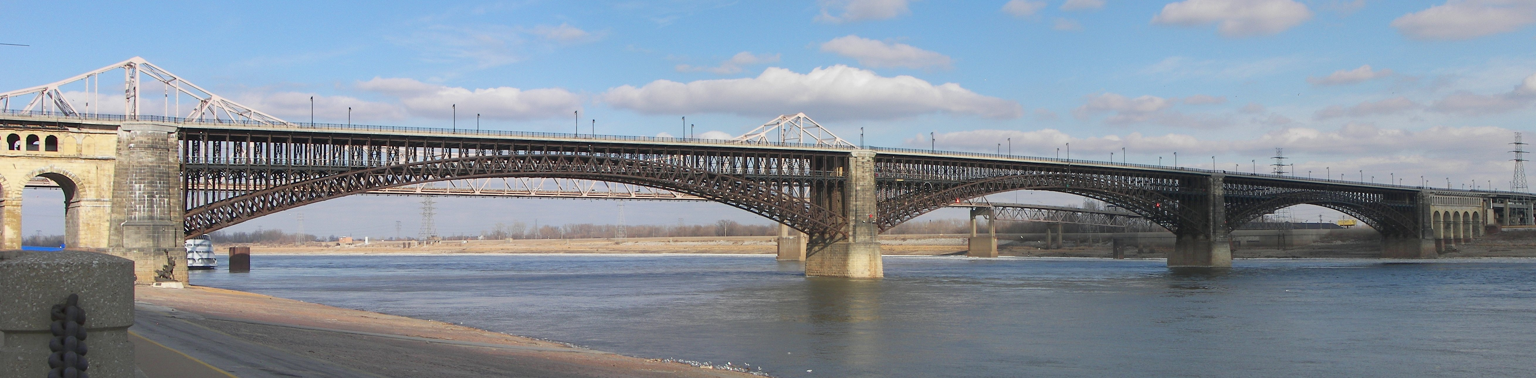 This is a panoramic image of the Eads Bridge and Martin Luther King Bridge which span the Mississippi River at St. Louis, Missouri. This is a composite of four images taken with a Kodak P850 digital camera that were stitched with the hugin panorama tool.